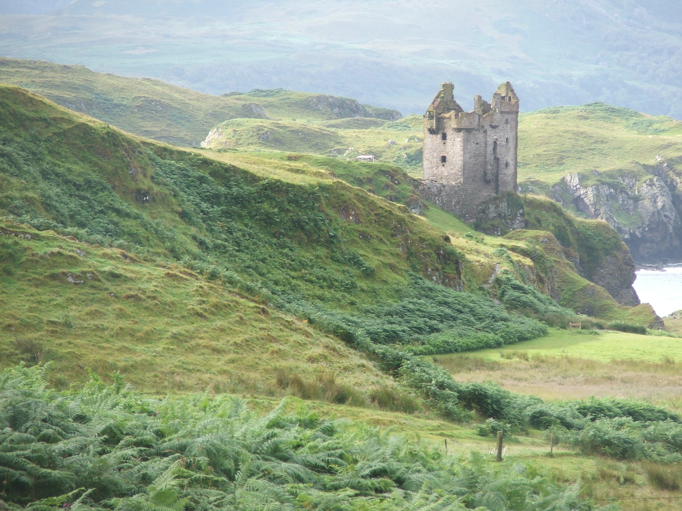 A view looking east across the hills of Kerrera.